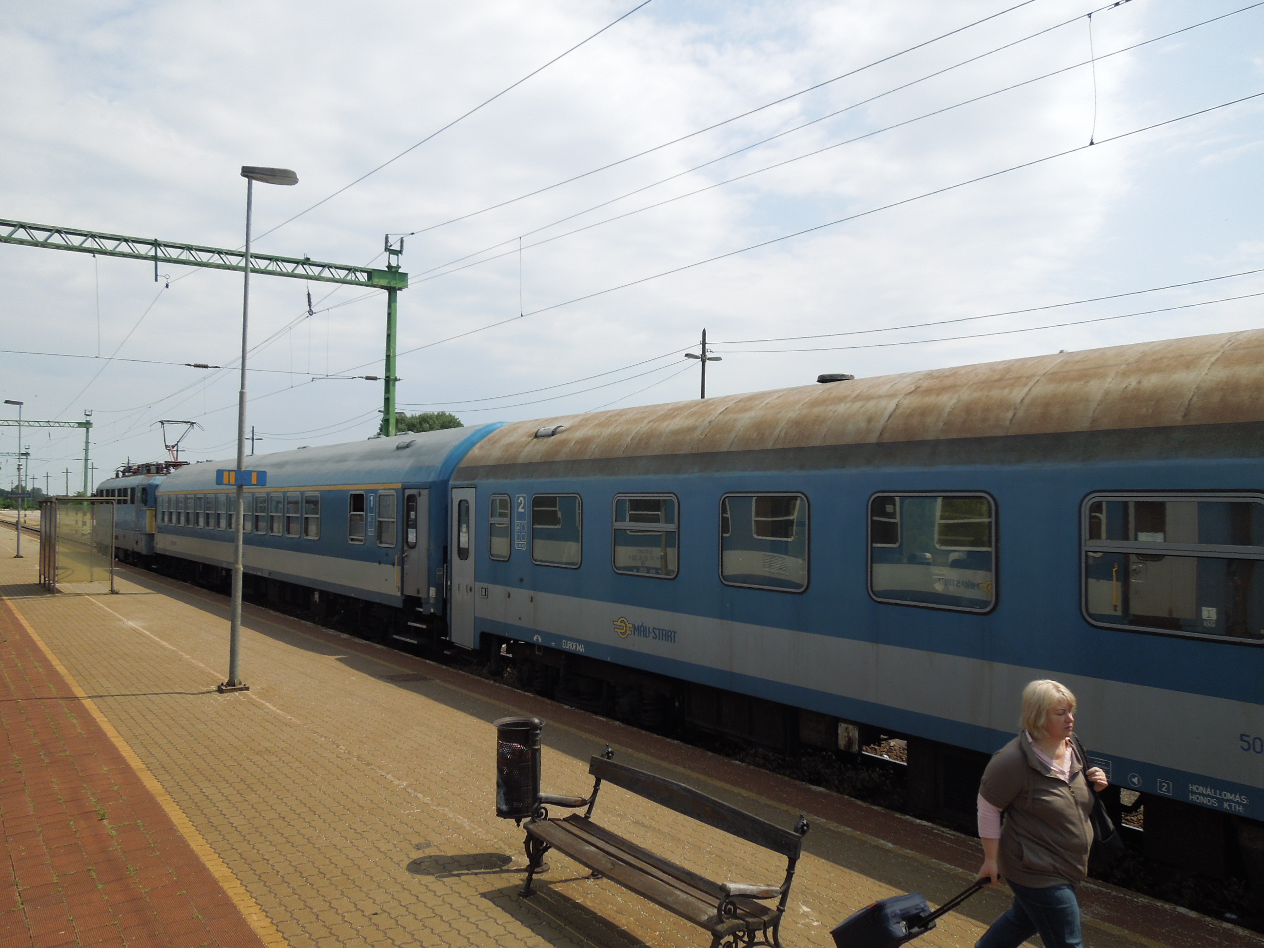 Hibrid IC in Nagykőrös